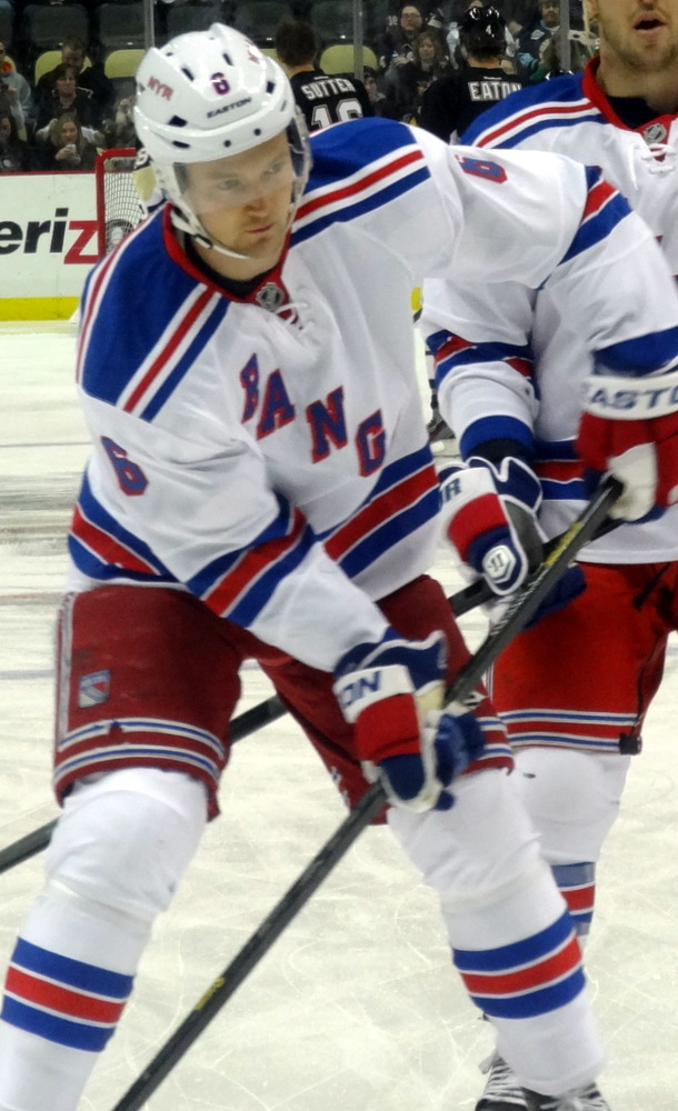 New York Rangers defenseman Anton Stralman skates against the Pittsburgh Penguins, March 16, 2013 at Consol Energy Center in Pittsburgh, PA.